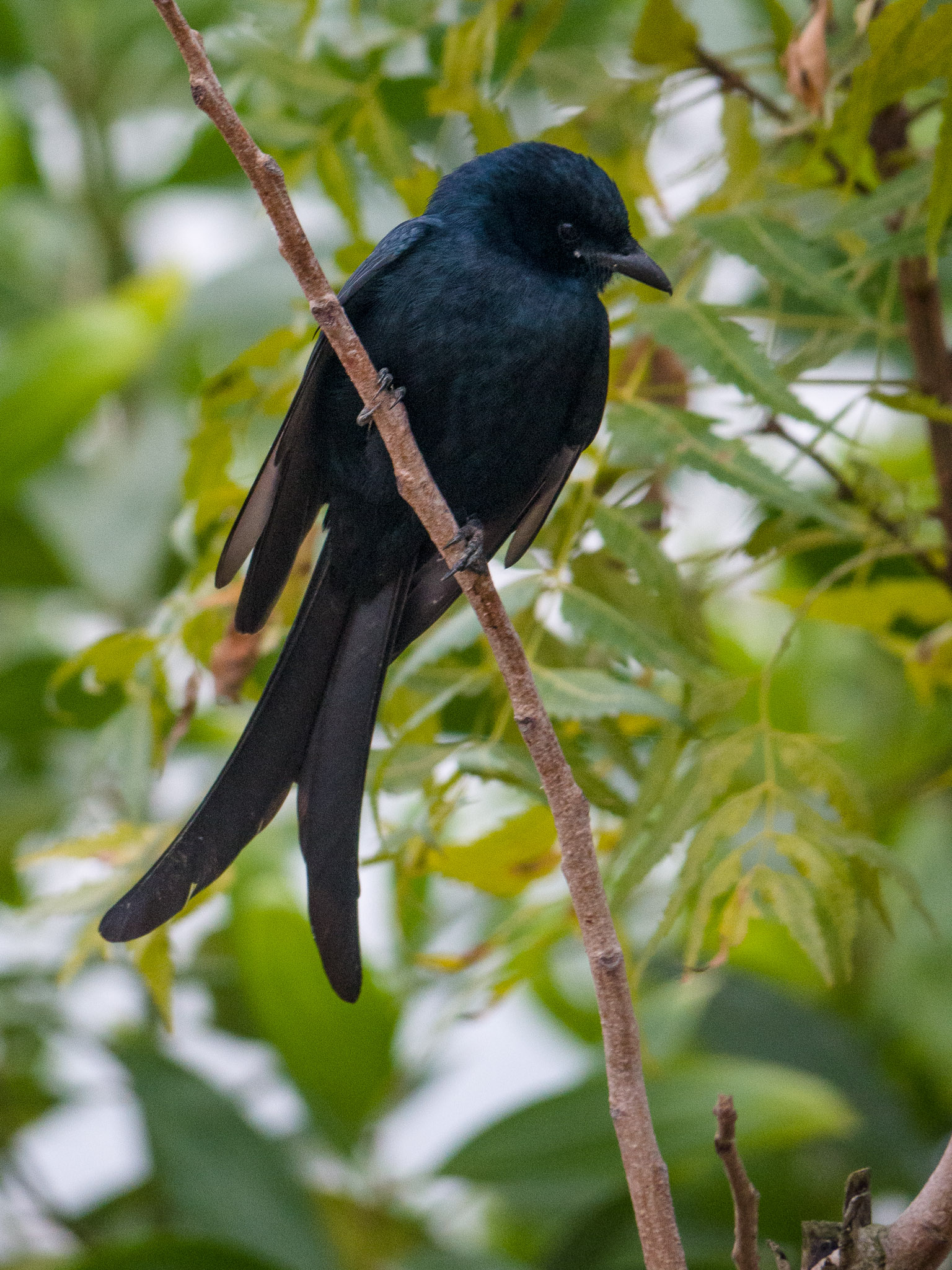 Black Drongo